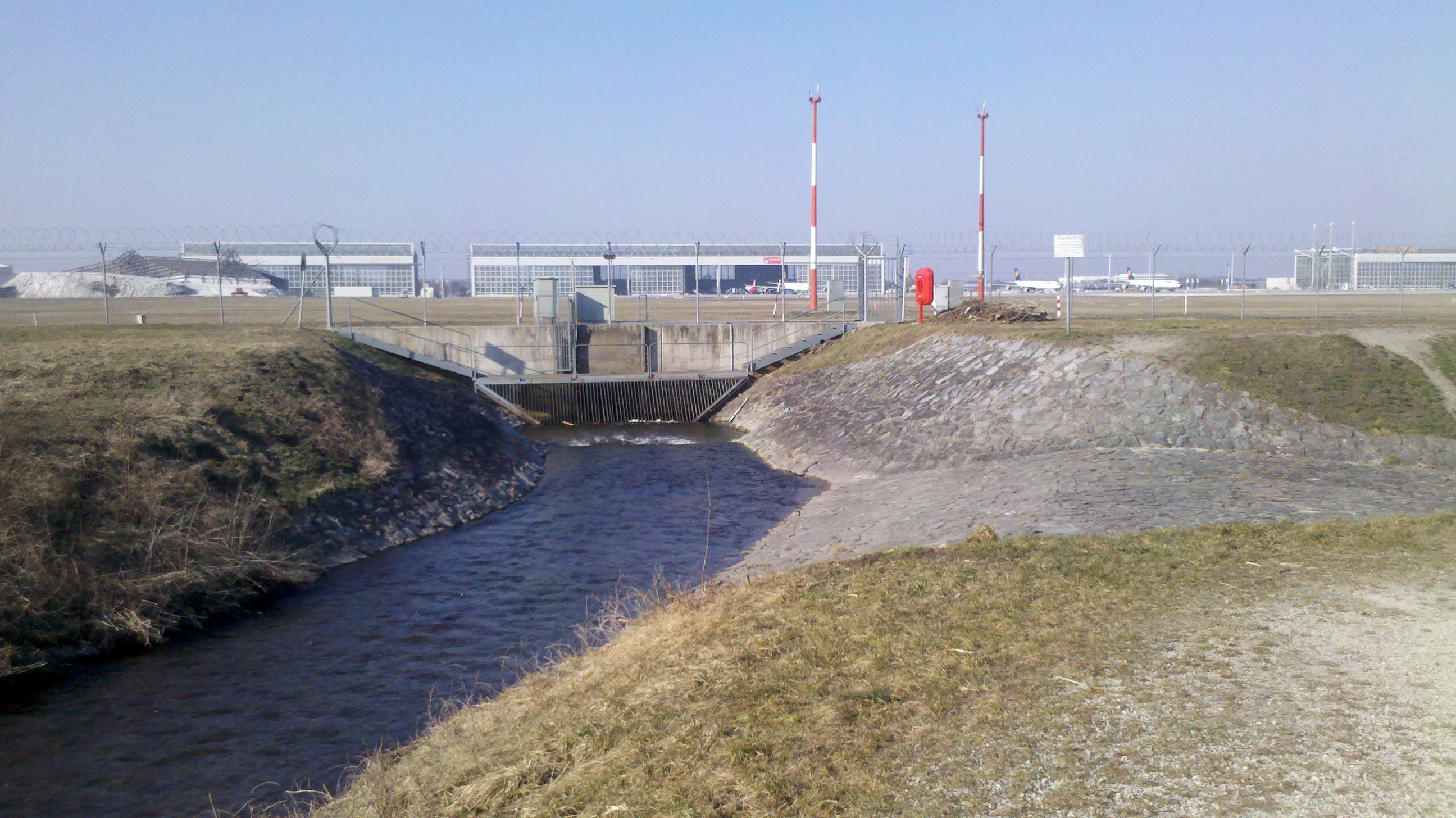 Goldach water intake at Munich airport